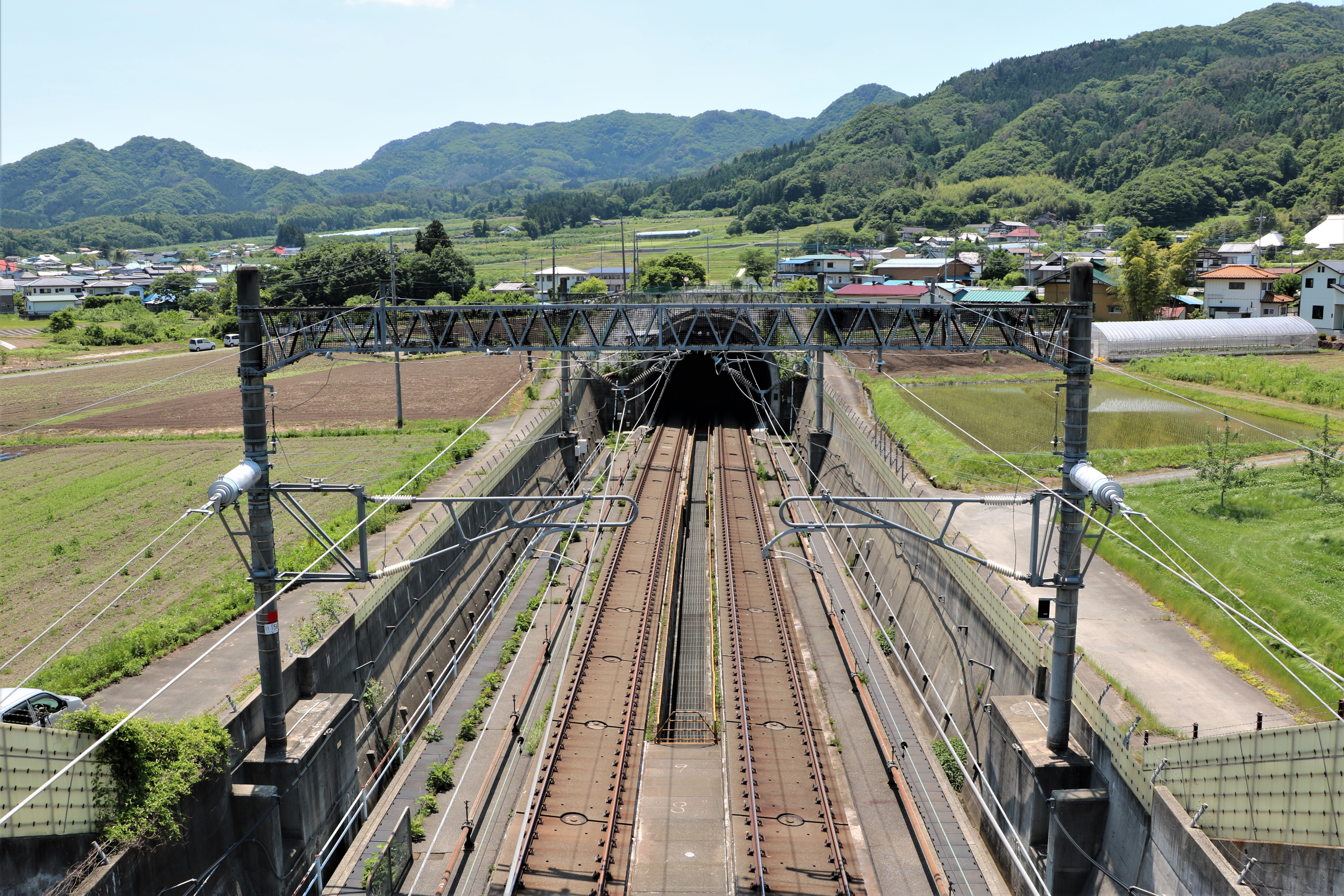 Nakayama tunnel north entrance of the Joetsu Shinkansen